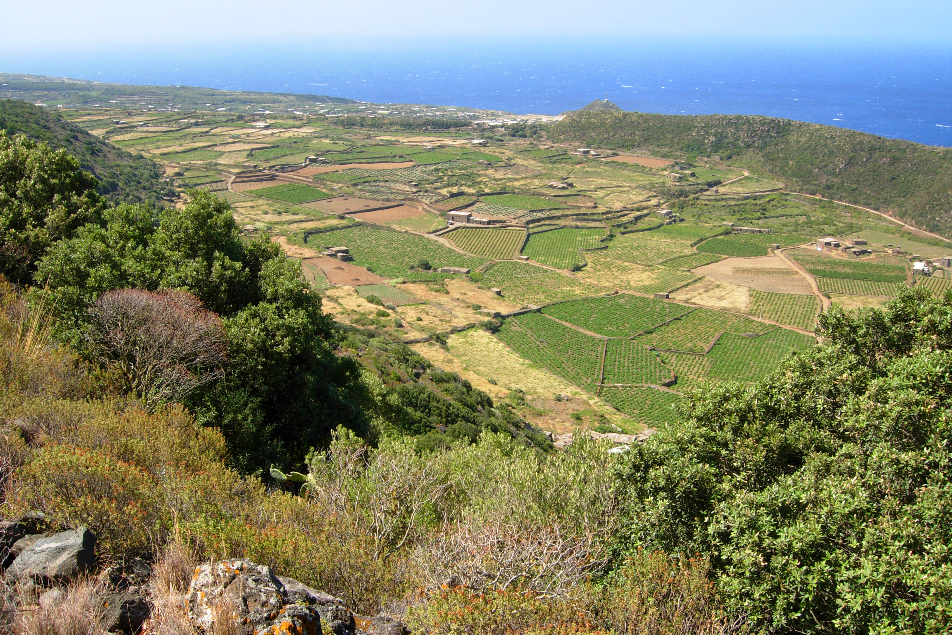 Piana di Ghirlanda from Montagna Grande, Pantelleria